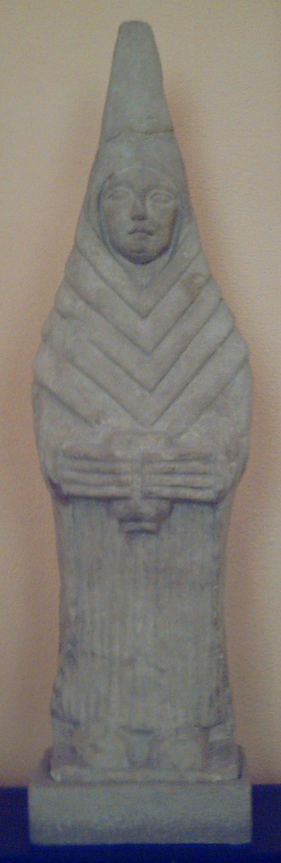 Iberian sculpture